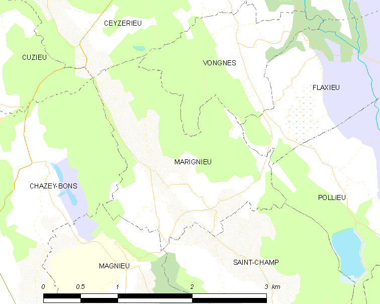 Map of French commune: Marignieu Map commune FR insee code 01234.png